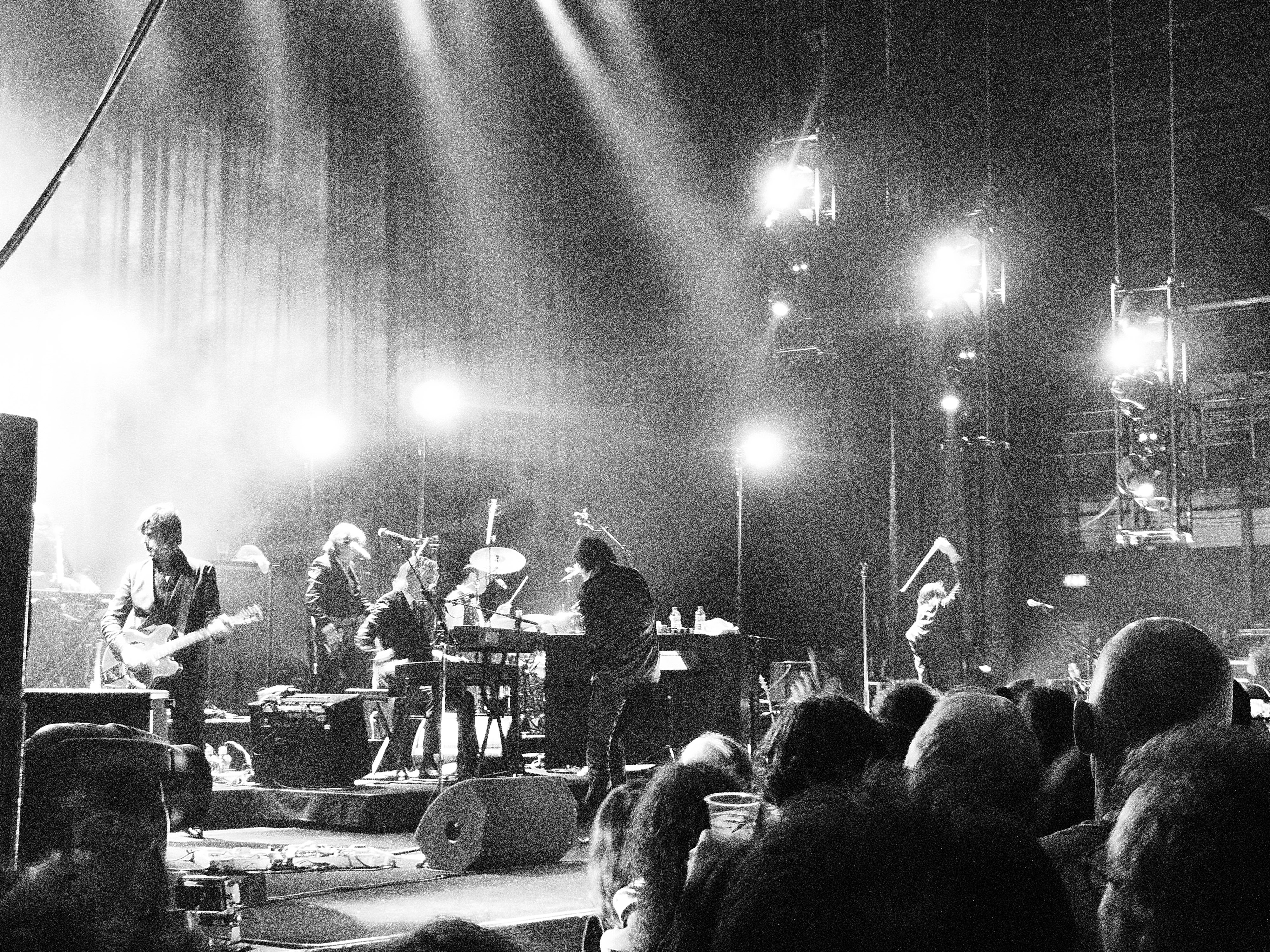 Nick Cave and the Bad Seeds performing at the Hammersmith Apollo in London, England on 26 October 2013.